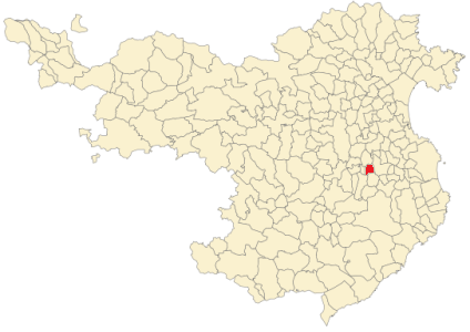 Flaçà